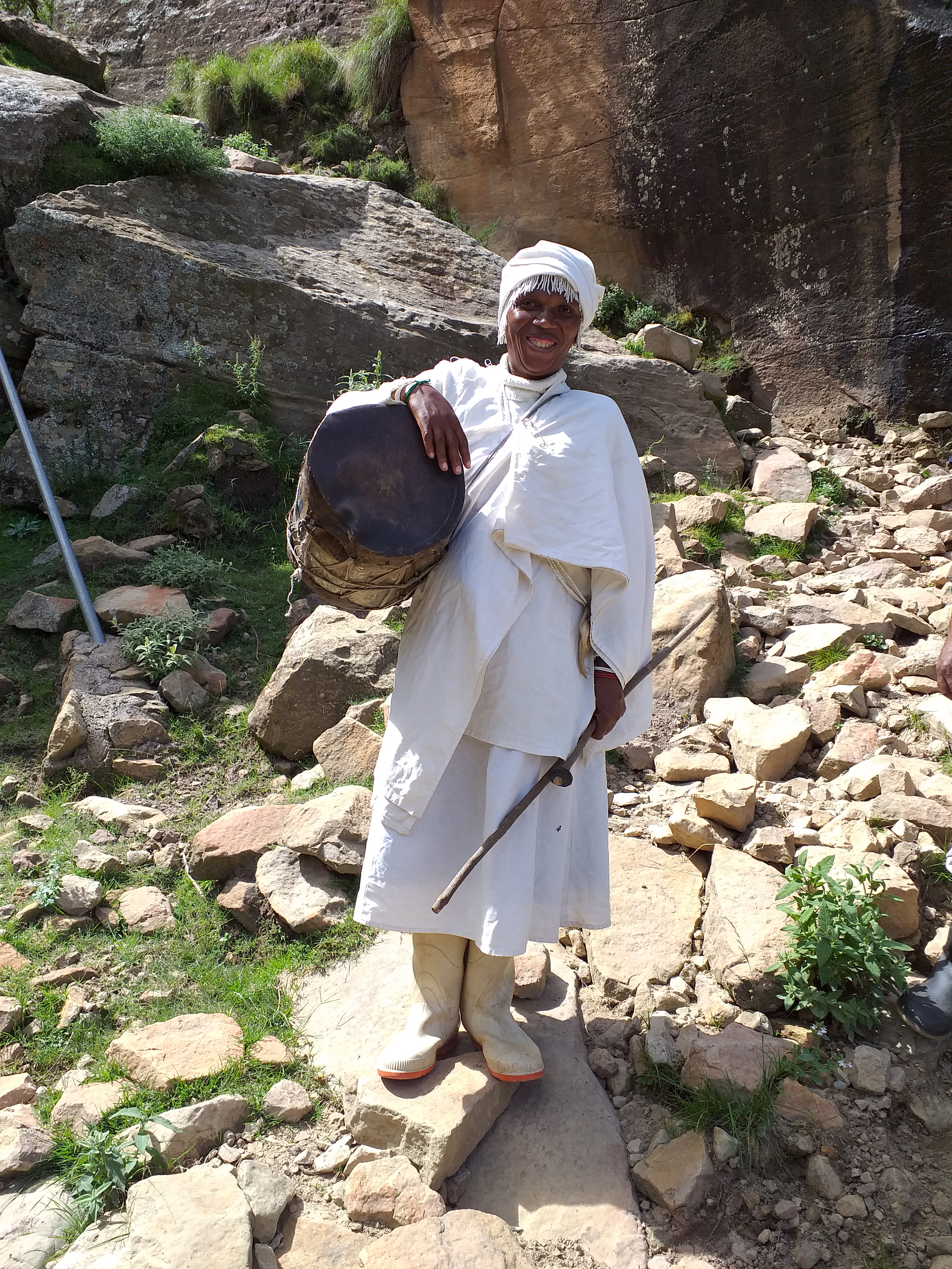 Out of the blue appears this medicine woman on a trek. This is an image with the theme "Africa on the Move or Transport" from: Lesotho